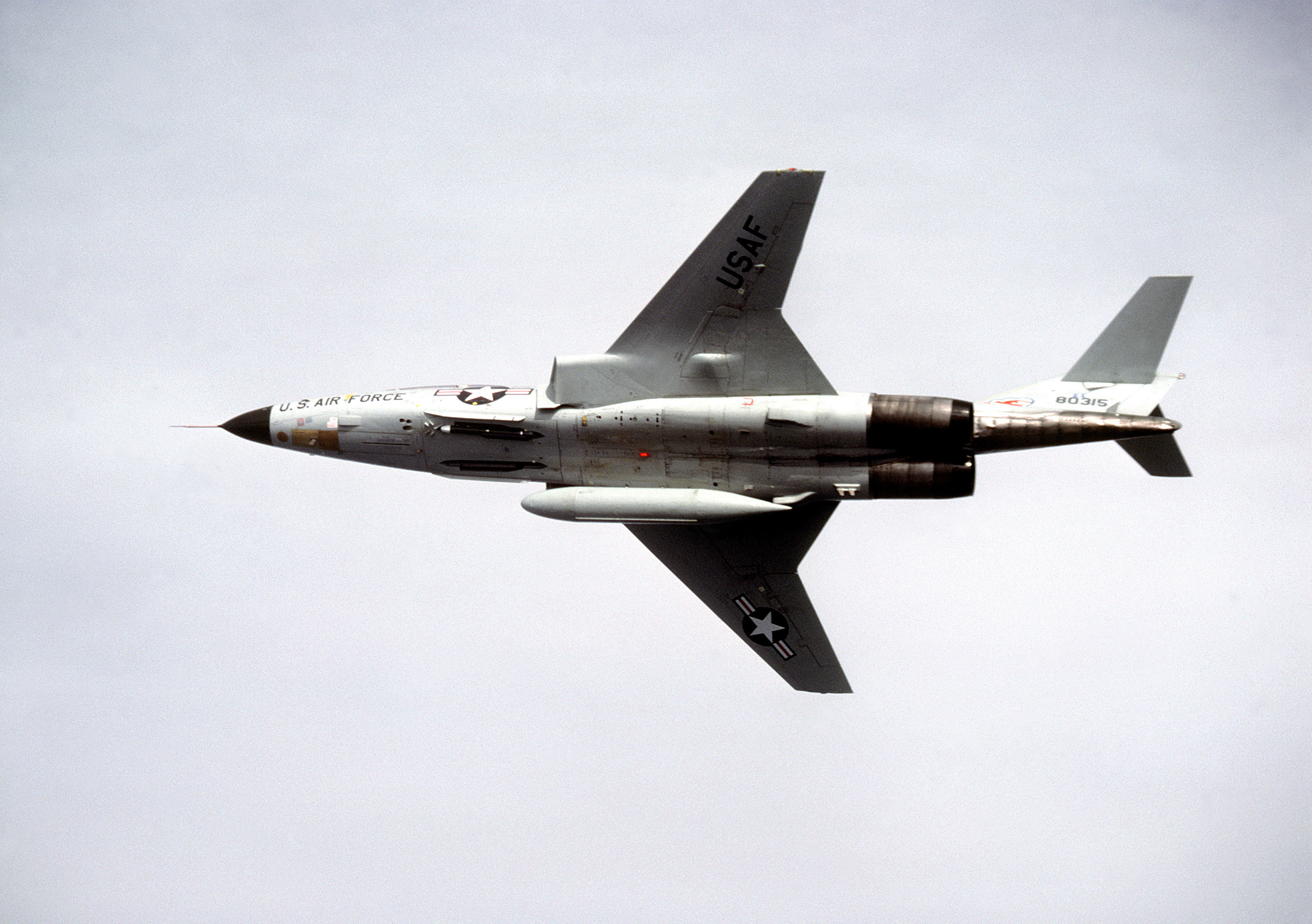 A U.S. Air National Guard McDonnell F-101B-110-MC Voodoo aircraft (s/n 58-0315) in flight in 1978. The aircraft was assigned to the 107th Fighter Interceptor Group, New York Air National Guard, and is today on display at Grand Forks Air Force Base, North Dakota (USA).